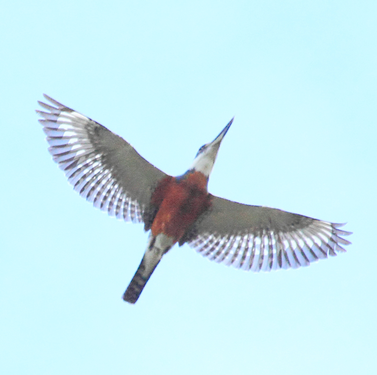 Ringed Kingfisher (Megaceryle torquata)